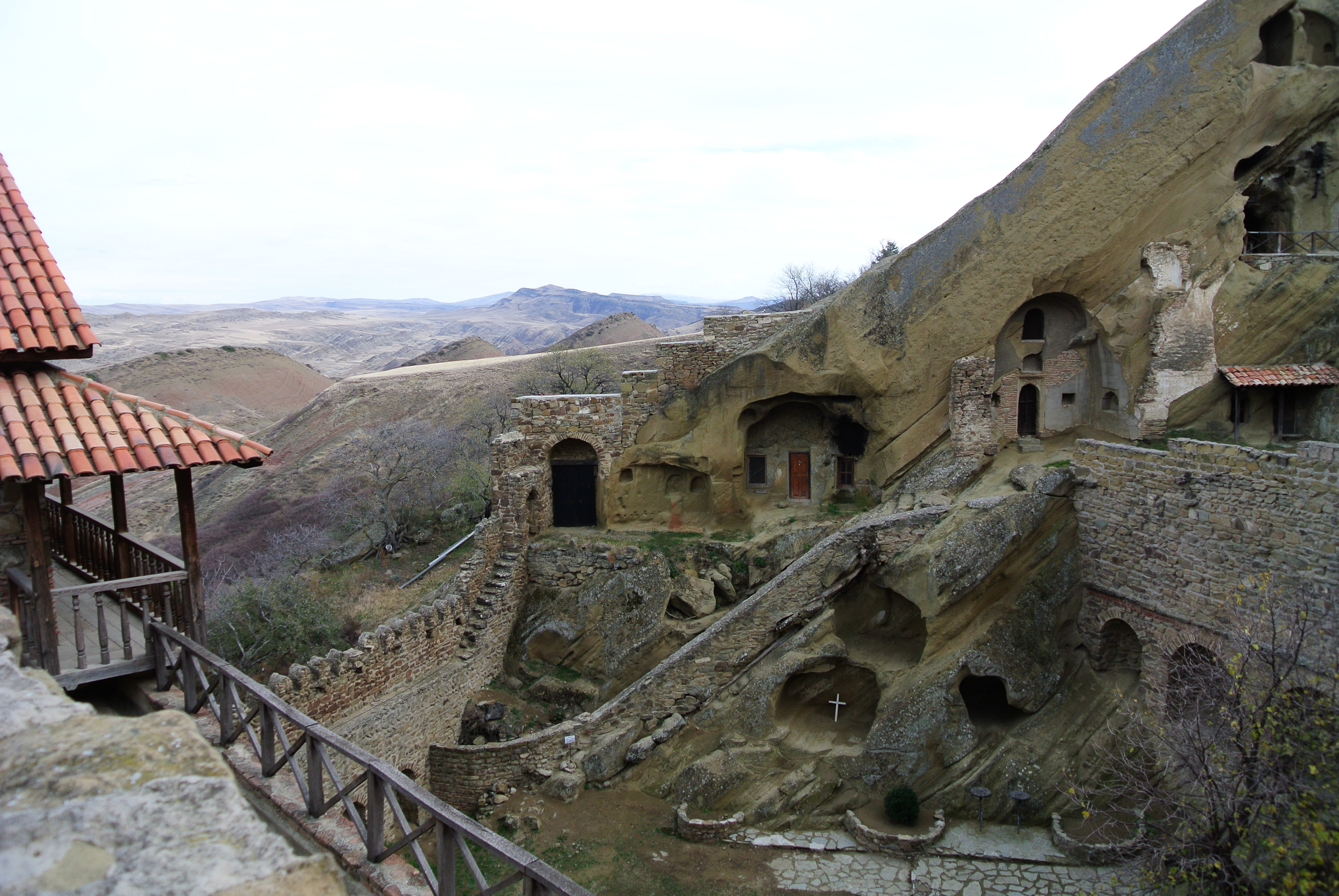 monastery complex